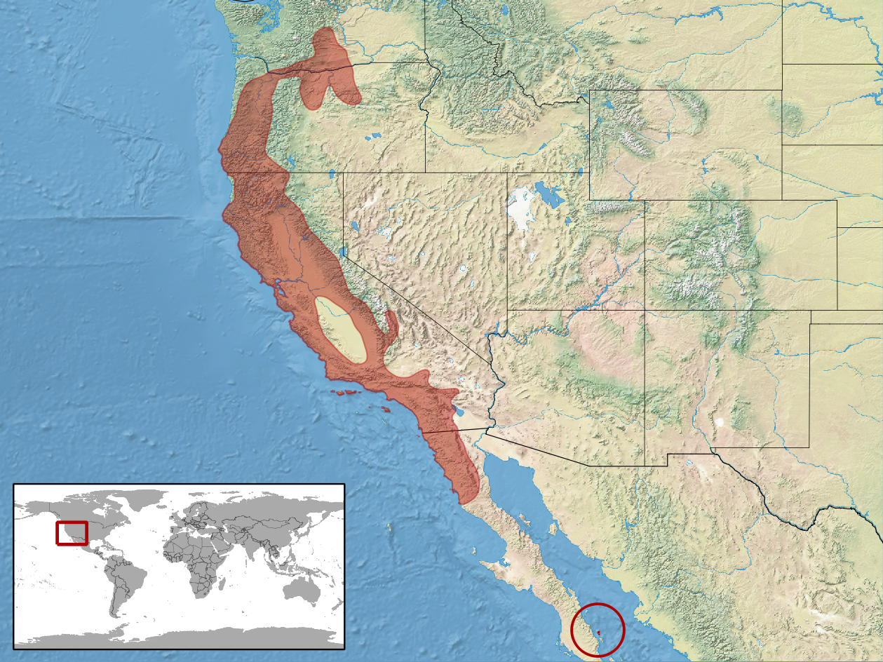 Geographic distribution of Elgaria multicarinata (Native: Mexico; United States). Range follows the RDB definition with E. m. nana as included subspecies.